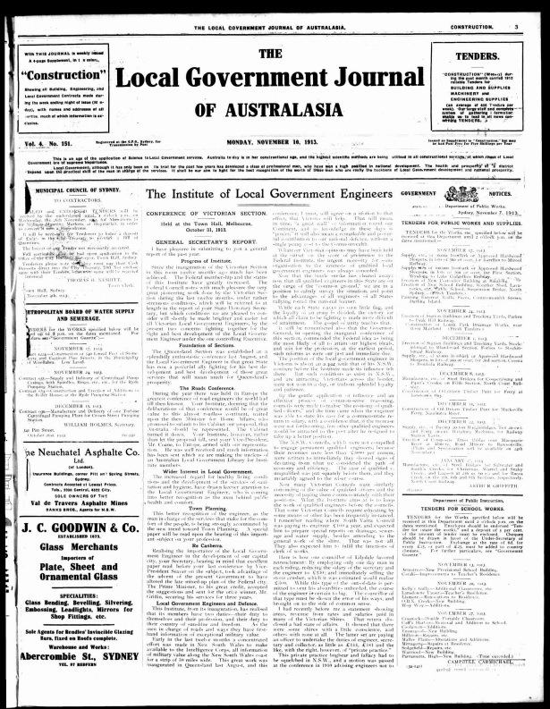 Construction and Local Government Journal, Monday, November 10, 1913